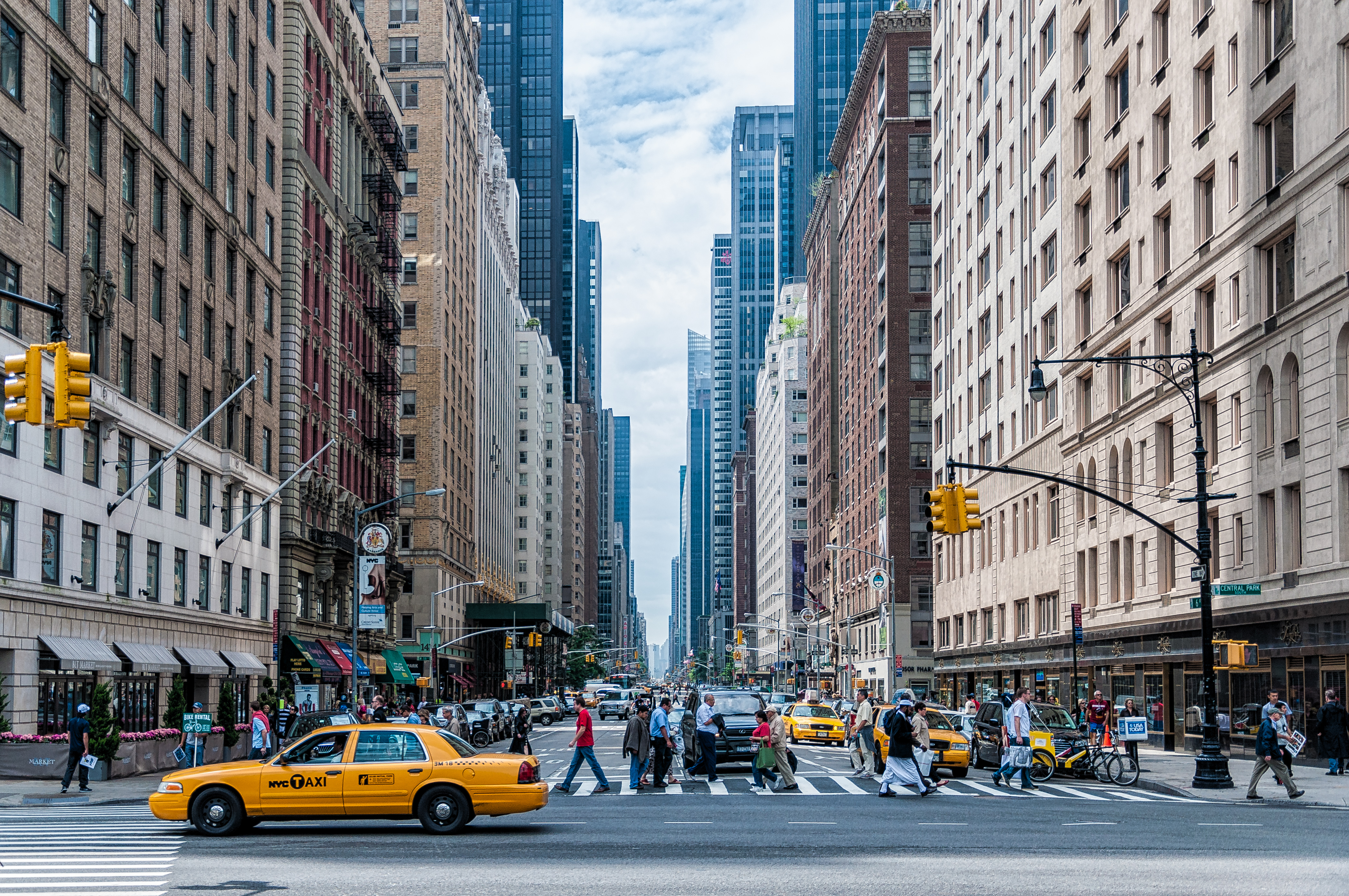 la guardia airport, New York City, USA (It's not.) Sixth Avenue and Central Park South (59th Street)